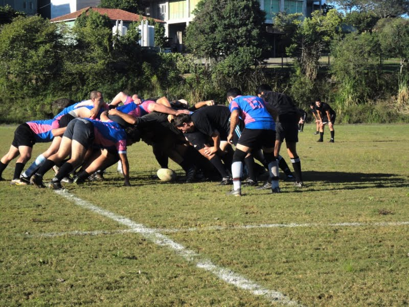 Match Centauros Rugby Clube X San Luis RC